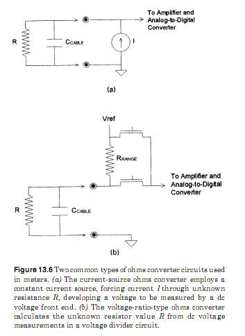 Types of ohm converter circuit used in meters